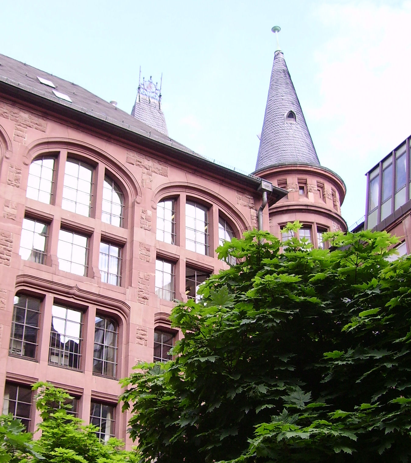 university of Heidelberg, Germany